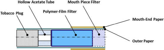 Evaluation of the Tobacco Heating System 2.2. Part 1: Description of the system and the scientific assessment program To operate the THS2.2 product, the user inserts a tobacco stick into the holder and turns on the device by means of a switch.